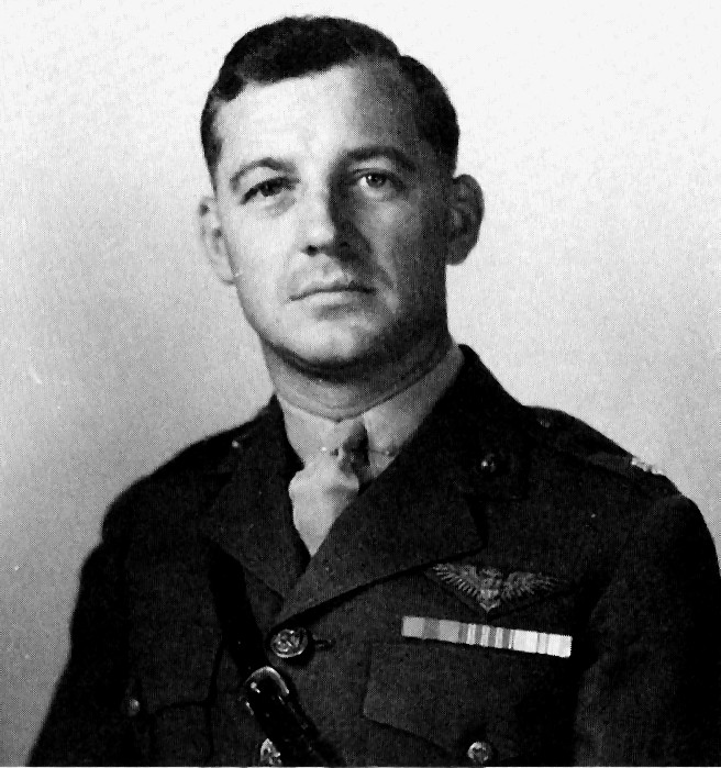 U.S. Marine Corps Major Lofton R. Henderson in July 1941. Henderson commanded the Marine scout bomber squadron VMSB-241 on Midway Atoll from 17 April to 4 June 1942. He was killed at the Battle of Midway during an attack on the Japanese aircraft carrier Hiryu, together with his rear gunner Pfc. Lee W. Reininger, flying the Douglas SBD-2 Dauntless BuNo 2192. "Henderson Field" on Guadalcanal was named in his honour.